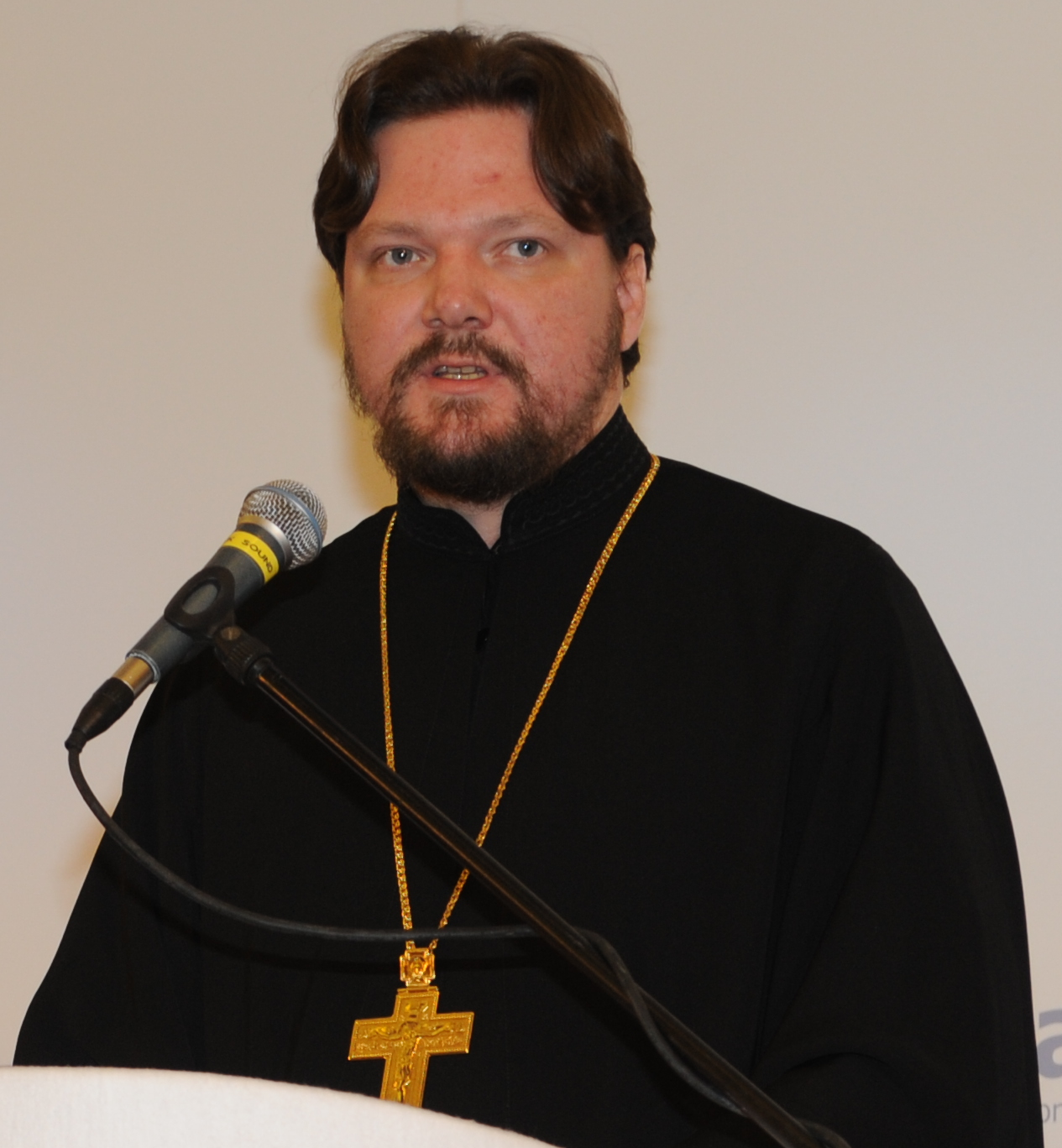 Fr Georgy Roshchin, Vice President, Moscow Patriarchate Department for Church Society Relations, Russia